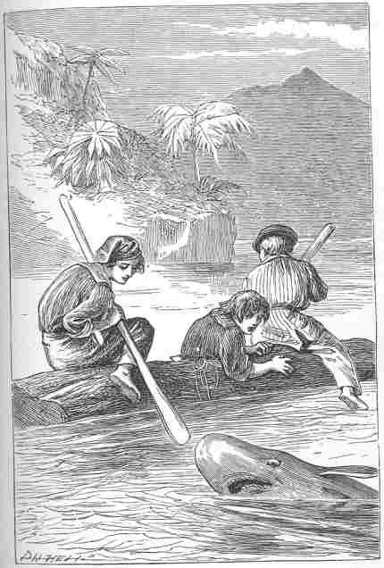 A scene from R. M. Ballantyne's 1857 novel The Coral Island, from an 1894 edition.